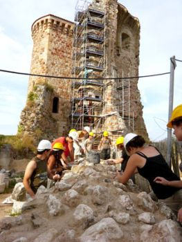 work camps for youth with the Club du Vieux Manoir